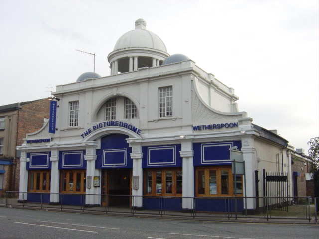 Converted Cinema, Kensington, Liverpool. Retaining the original facade it has been converted to a Wetherspoons bar.